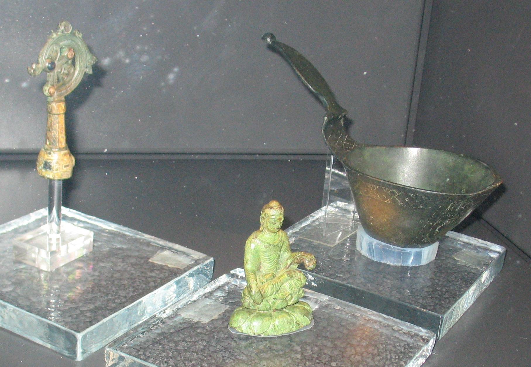 An Irish crozier, an Indian Buddha statuette, and an Egyptian scoop, from a Viking settlement.